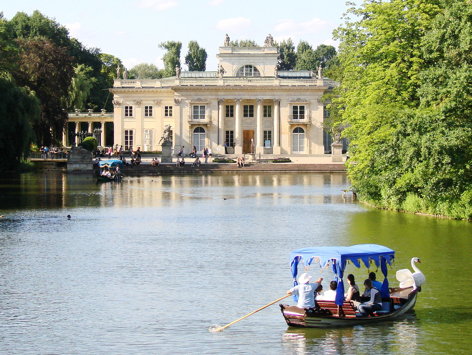 Southern facade of the Palace on the Water in Łazienki Park, Warsaw, Poland